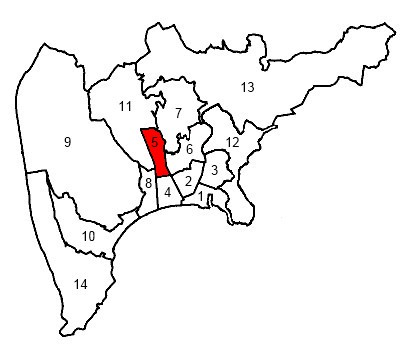 Location of canton of Nice-5 in the city of Nice, Alpes-Maritimes, France.